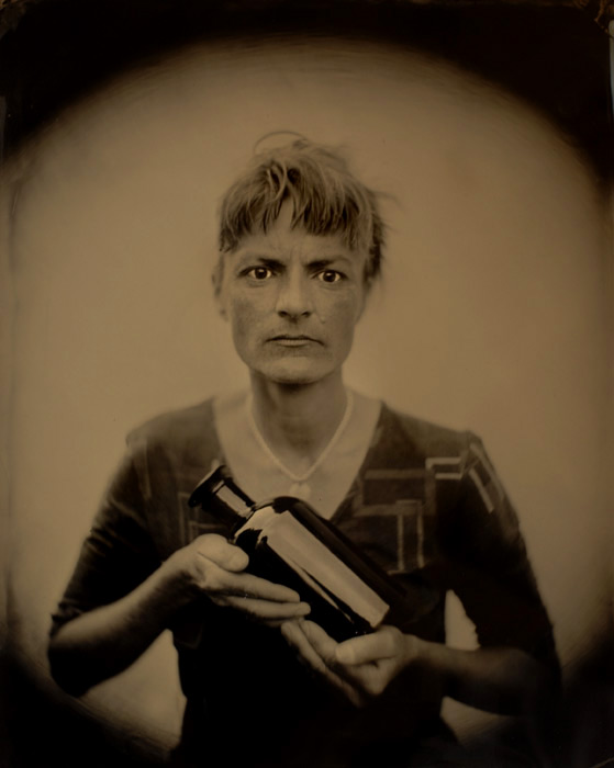 "Erika" 8"x10" Ambrotype on black glass by artist/photographer Quinn Jacobson. Made May 2007, Viernheim, Germany.